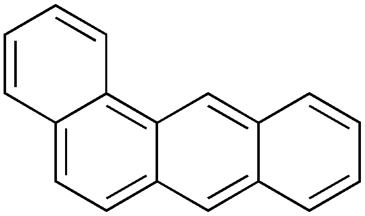 Skeletal structure of the benzo[a]anthracene (benzanthracene) molecule.